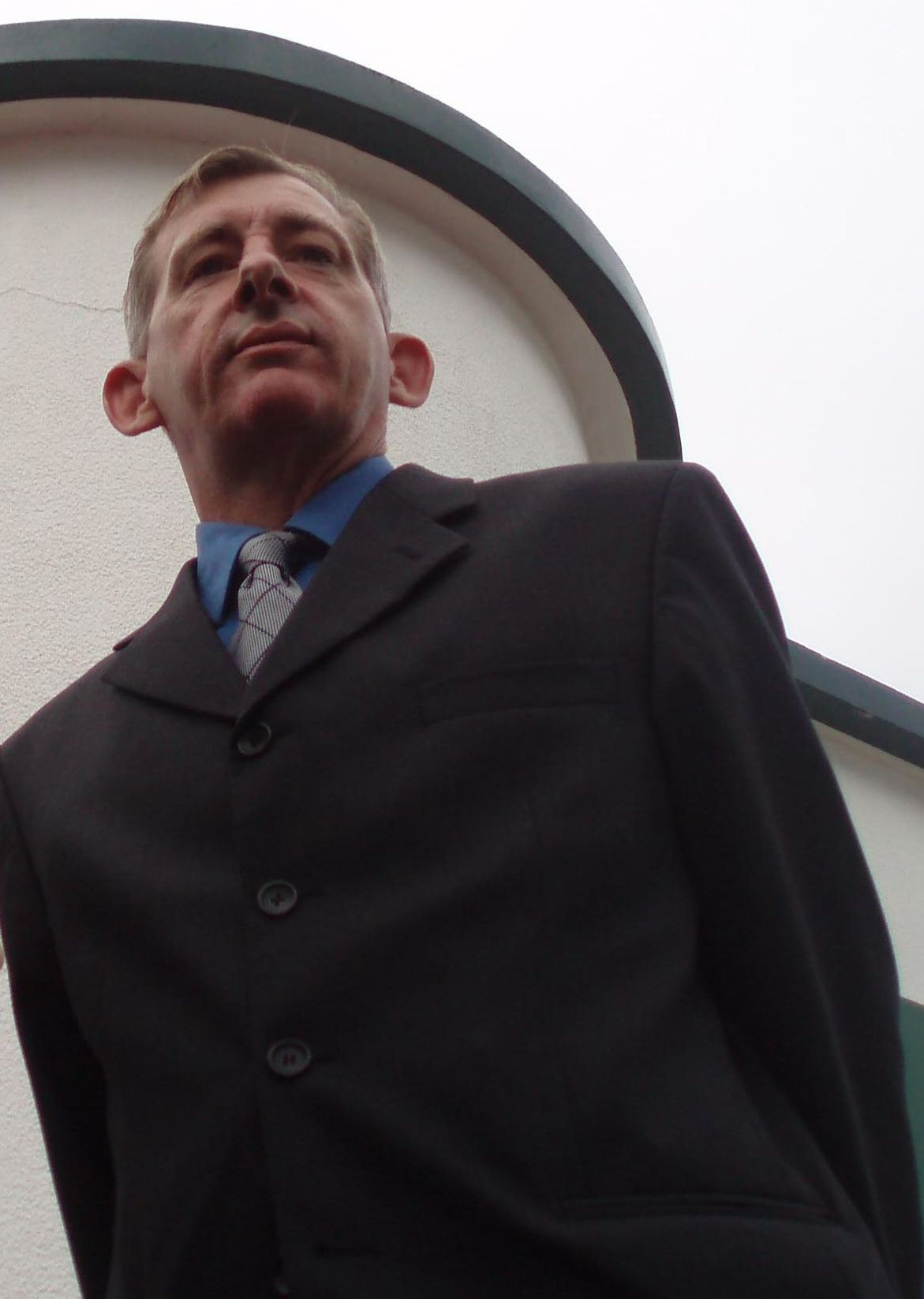 Christophe Salengro, Groland president.